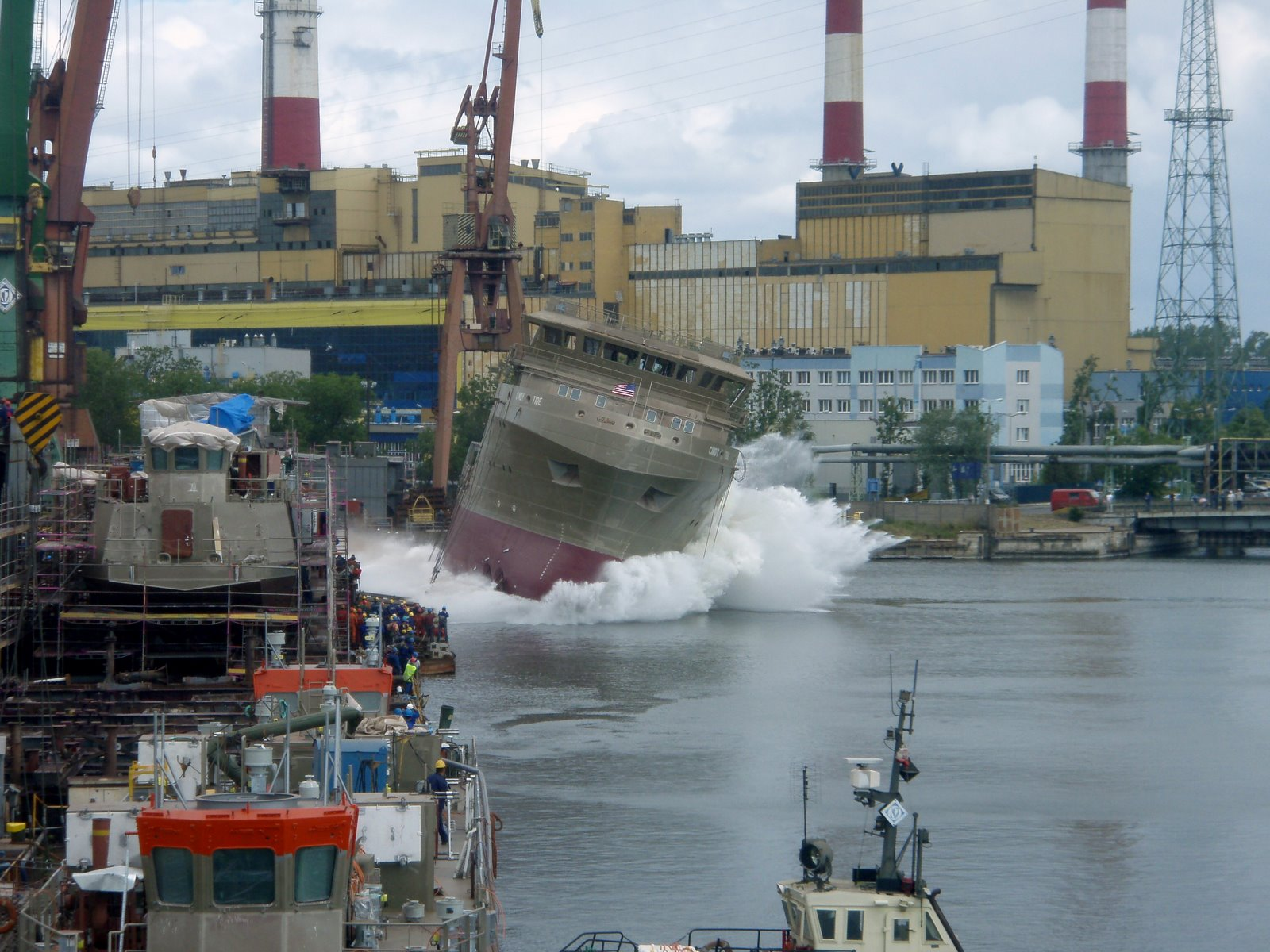 Gdańsk. The Northern Shipyard, the launch of the next anchor tug in the series.